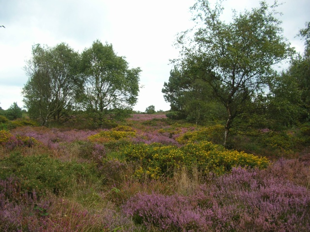 Kelling Heath Heather and broom in flower on Kelling Heath.